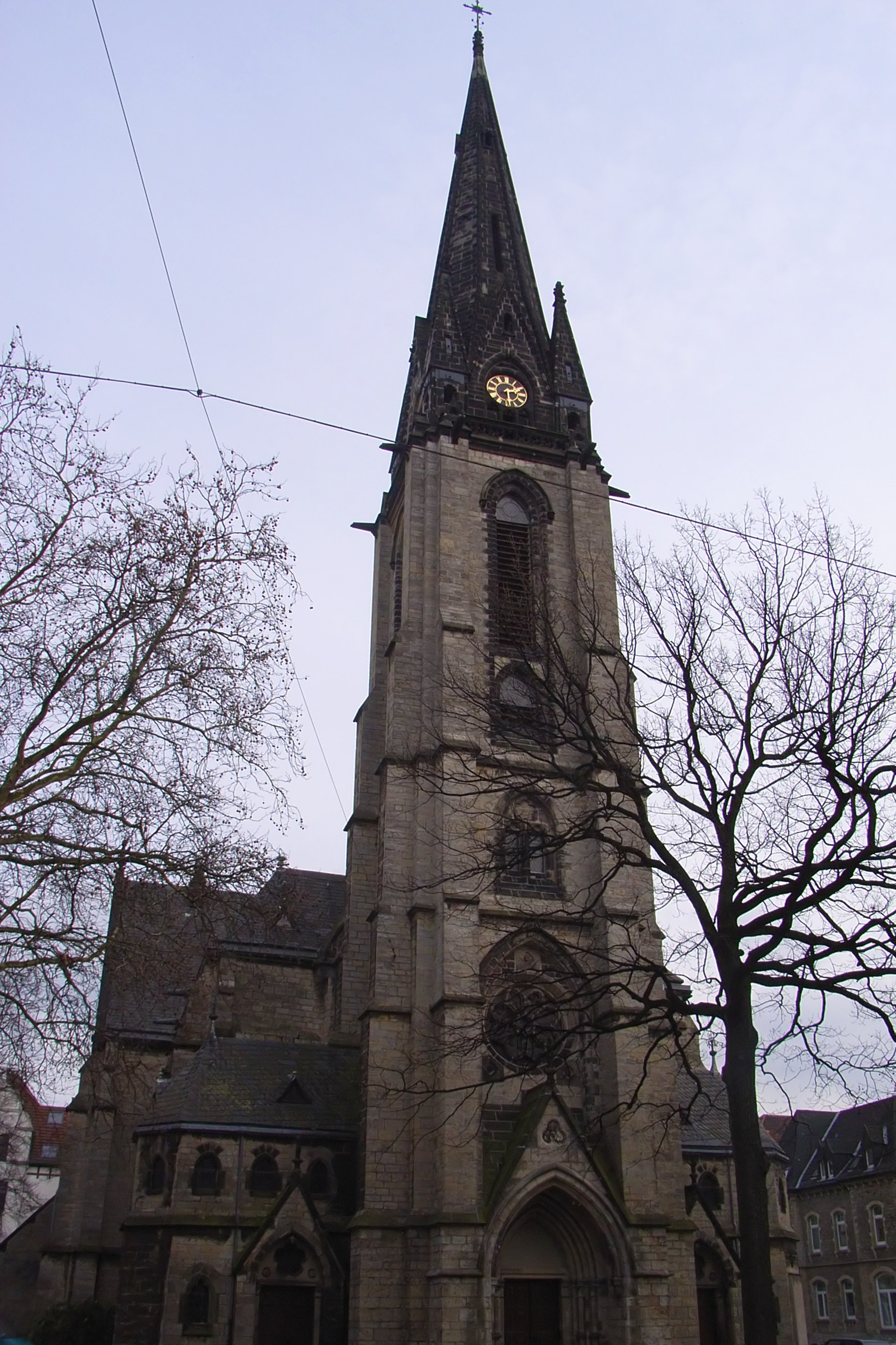 Bielefeld, Germany: Lutheran St. Paul Church.